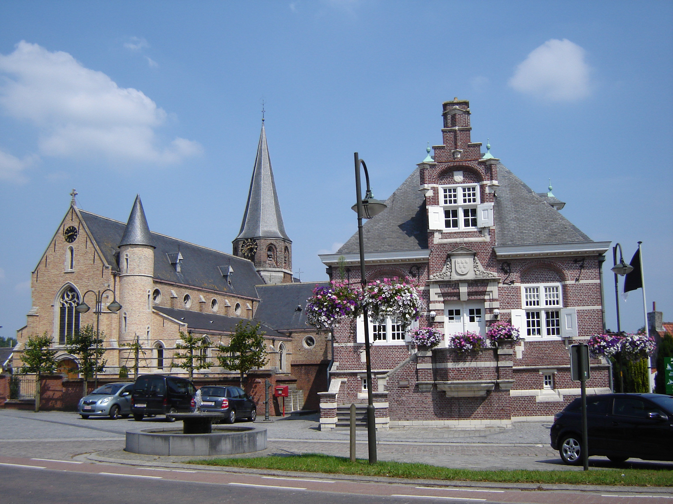 Town center of Uitbergen, with the Church of Saint Peter in Chains and the former town hall. Uitbergen, Berlare, East Flanders, Belgium